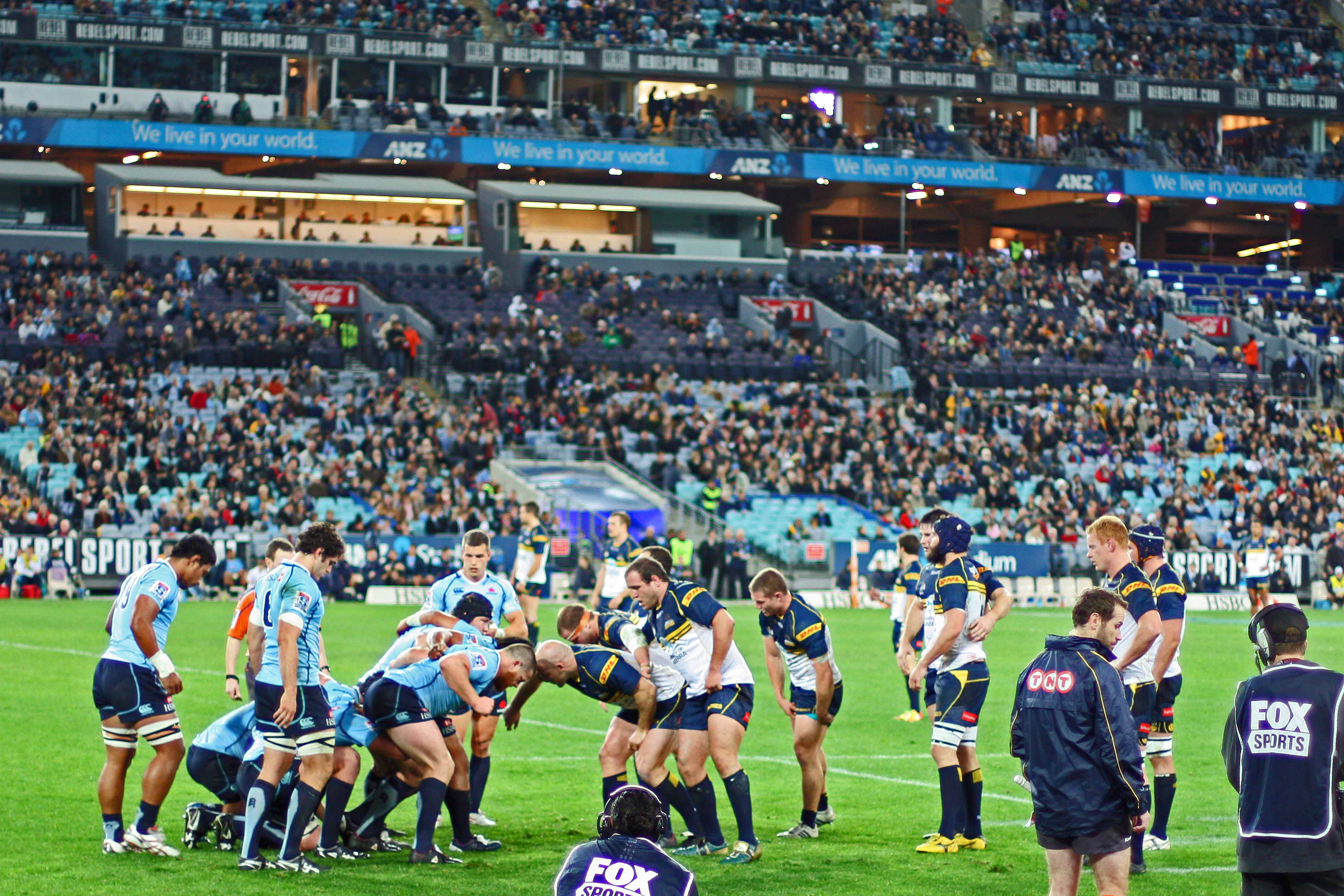 Celebrating Son2's 18th - Waratahs lost - Small errors that cost them EOS 0598